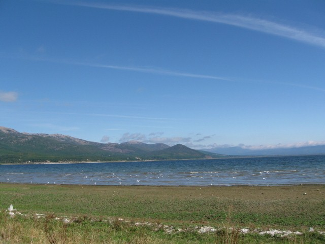 View of Lake Prespa from Stenje, Rep. of Macedonia